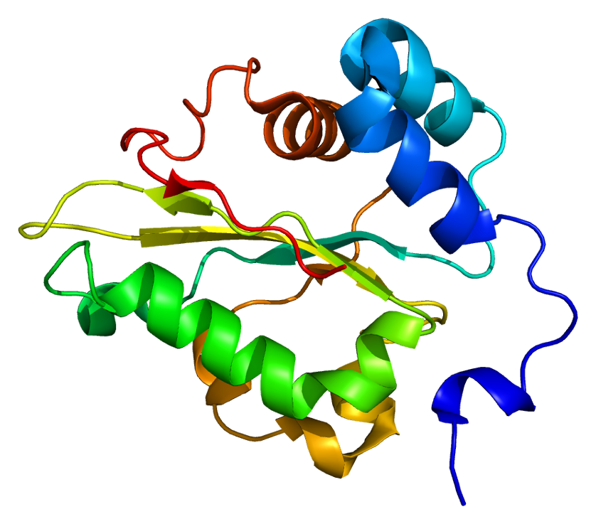 Structure of the EEF1G protein. Based on PyMOL rendering of PDB 1pbu.